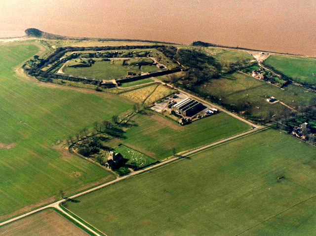 Paull Church and Paull Fort, Paull, East Riding of Yorkshire, England.Taken from above Low Paull at a height of about 1500' (475m) looking in a south westerly direction. Paull Church can be seen in the foreground and the irregular pentagonal shape of Paull Fort's perimeter can be seen beyond it.